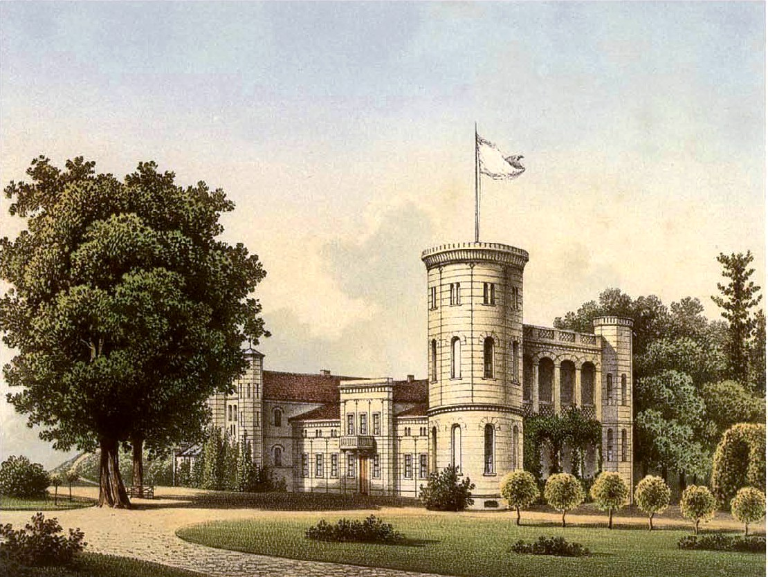 Manor in Margońska Wieś, Poland